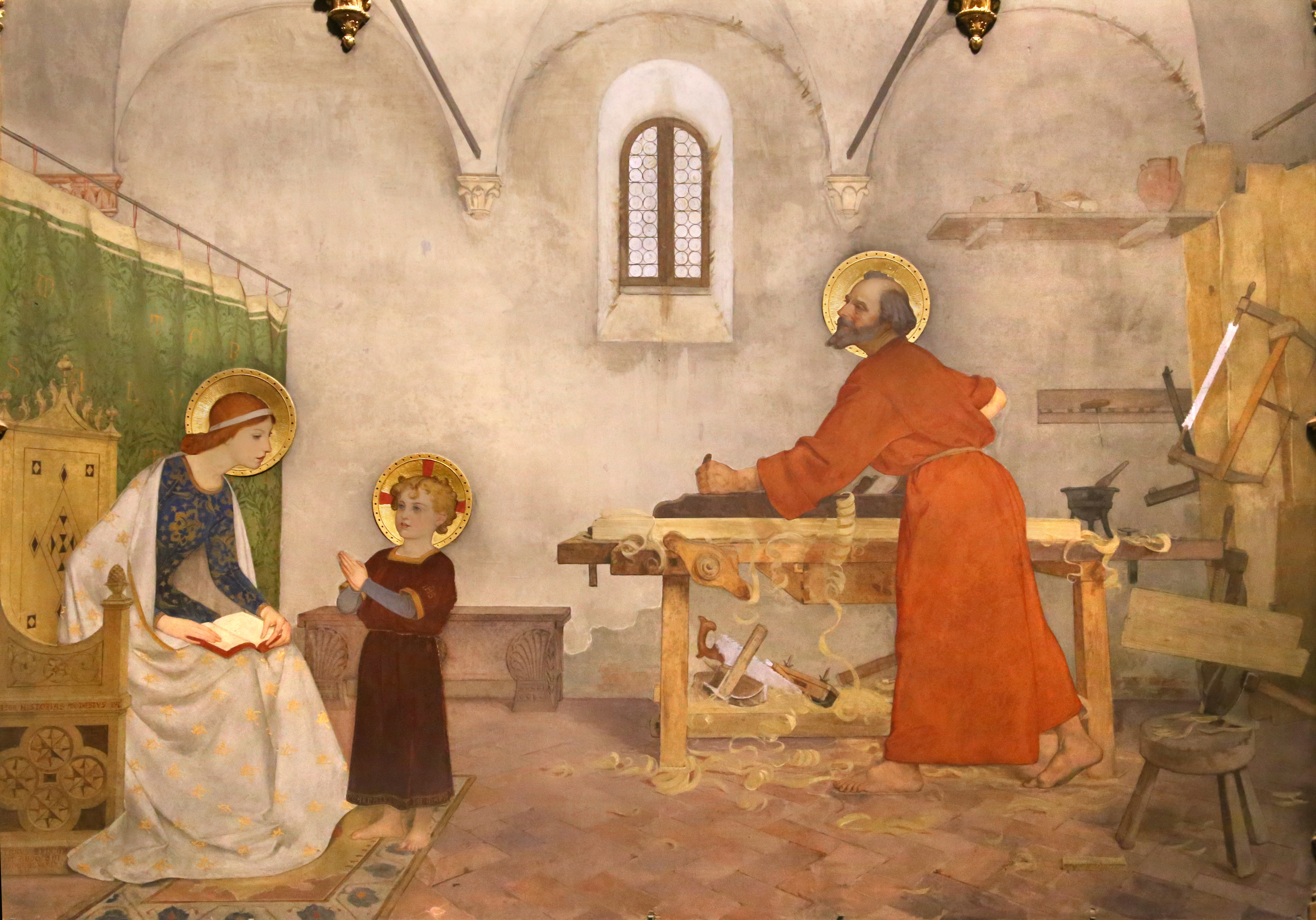 Santuario della Santa Casa (Loreto) - Interior